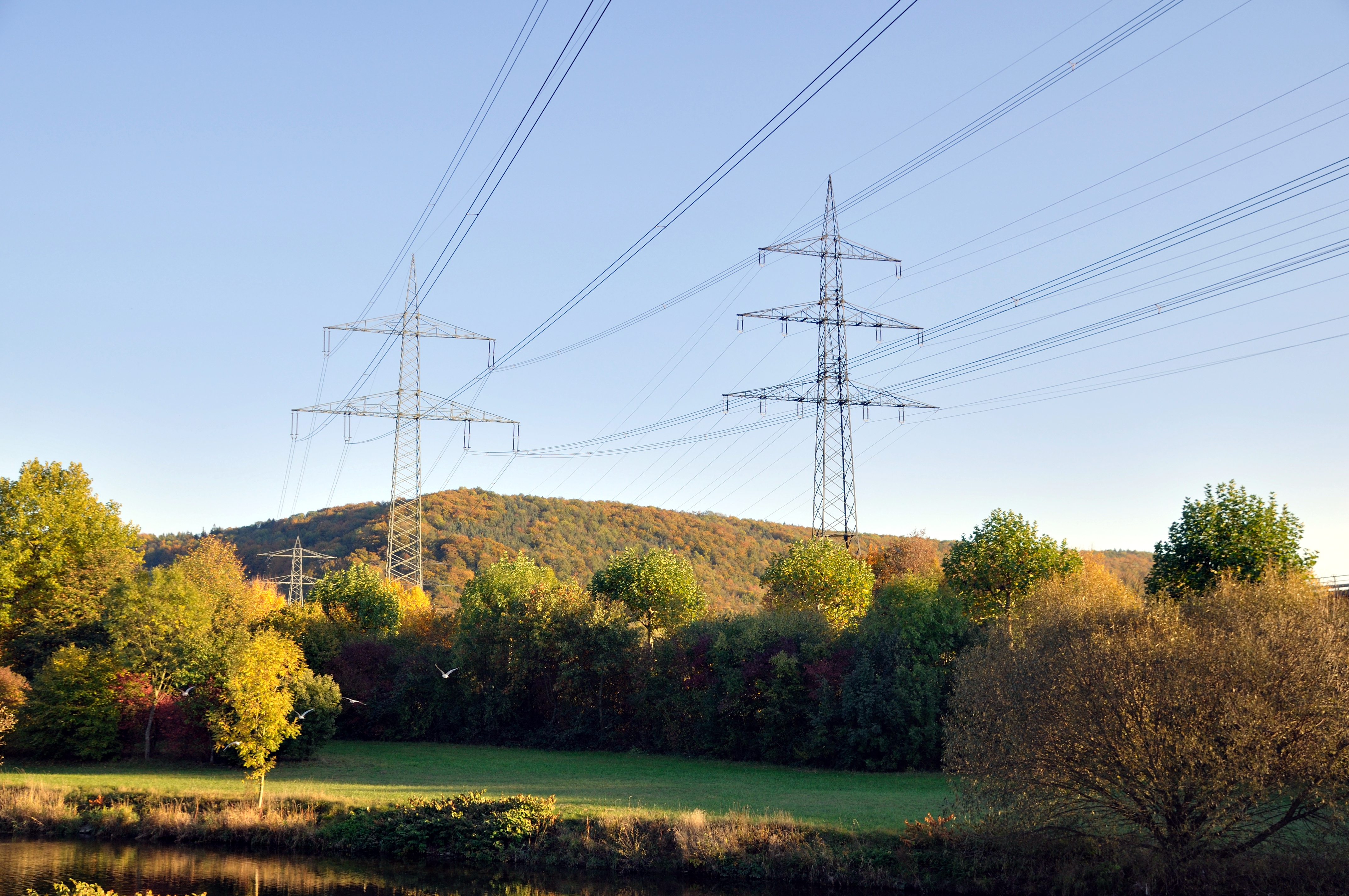 Powerline towers in Lörrach